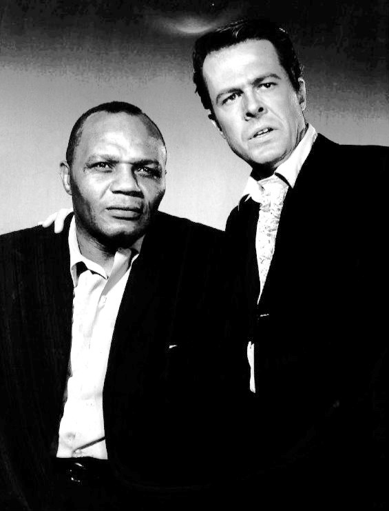 Photo of boxer Jersey Joe Walcott and Robert Culp from the television program Cain's Hundred.